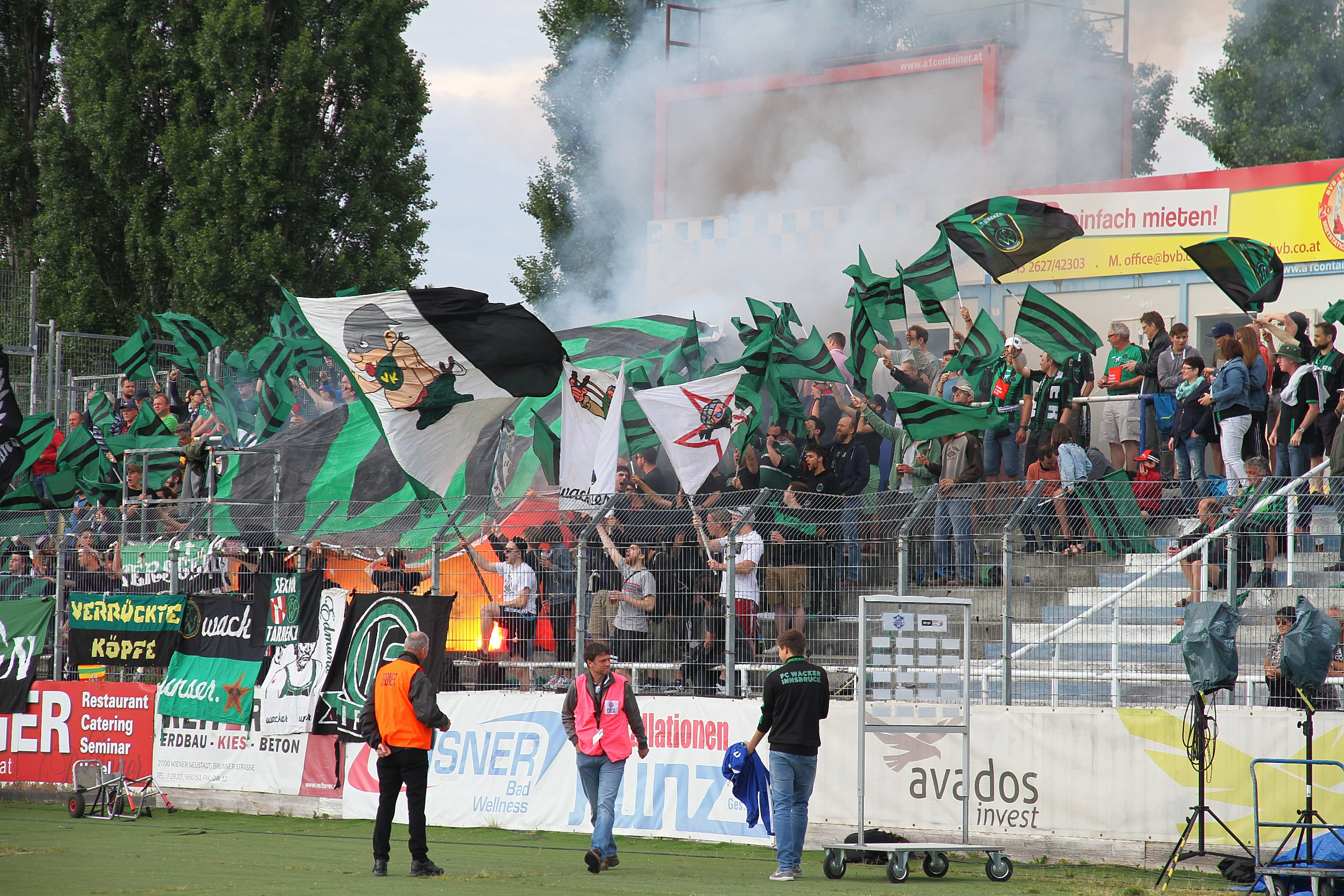 Football-championship Erste Liga 2017–18 - SC Wiener Neustadt (white shirts) vs. FC Wacker Innsbruck (black-green shirts) 1-0. – The photo shows Supporters of FC Wacker Innsbruck.